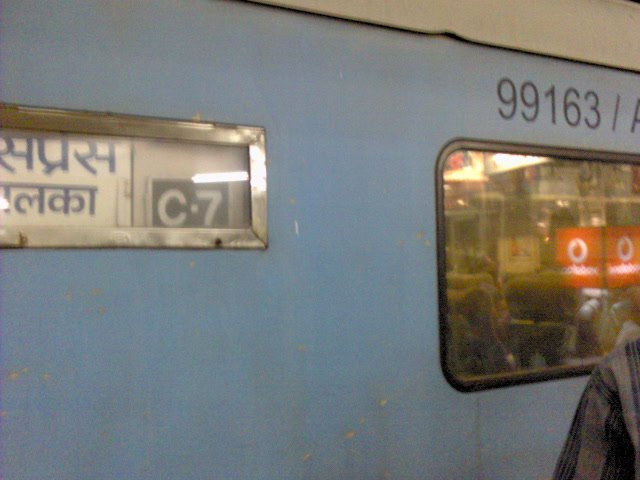 New Delhi bound Shatabdi Express is standing at Chandigarh Railway station.